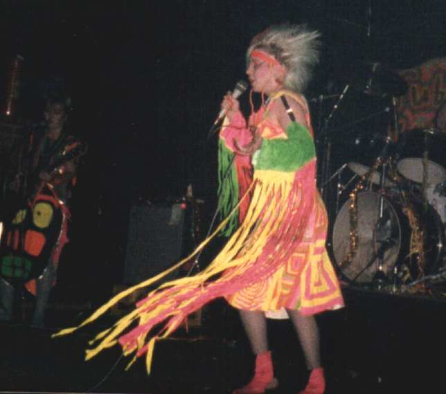 Rubella Ballet, Clarendon, Xmas Eve 1985.